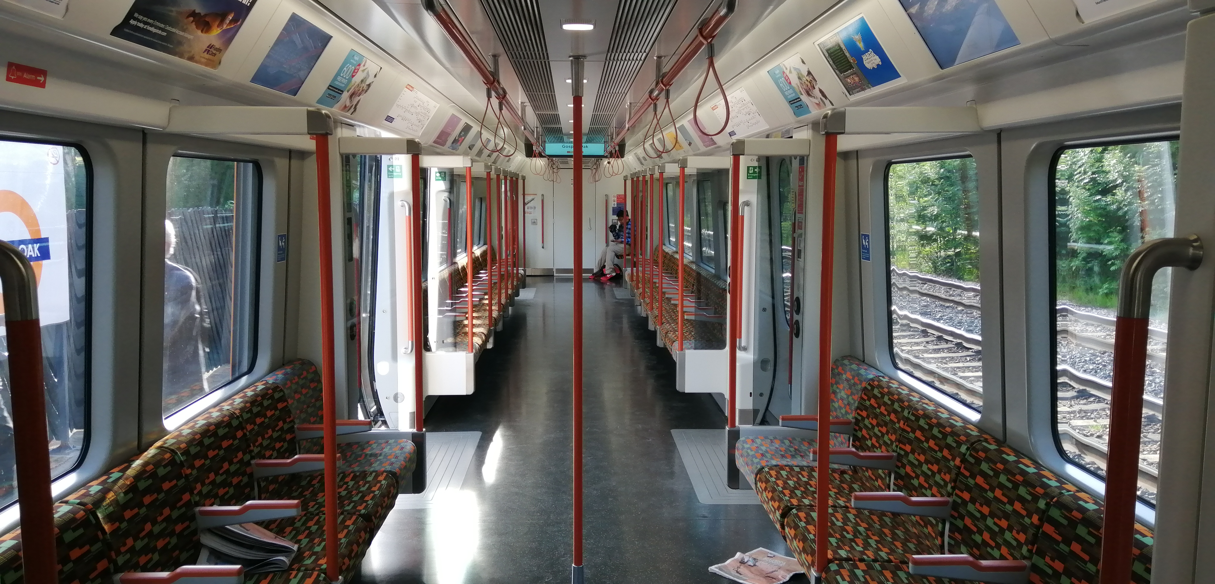 Class 710 DM interior